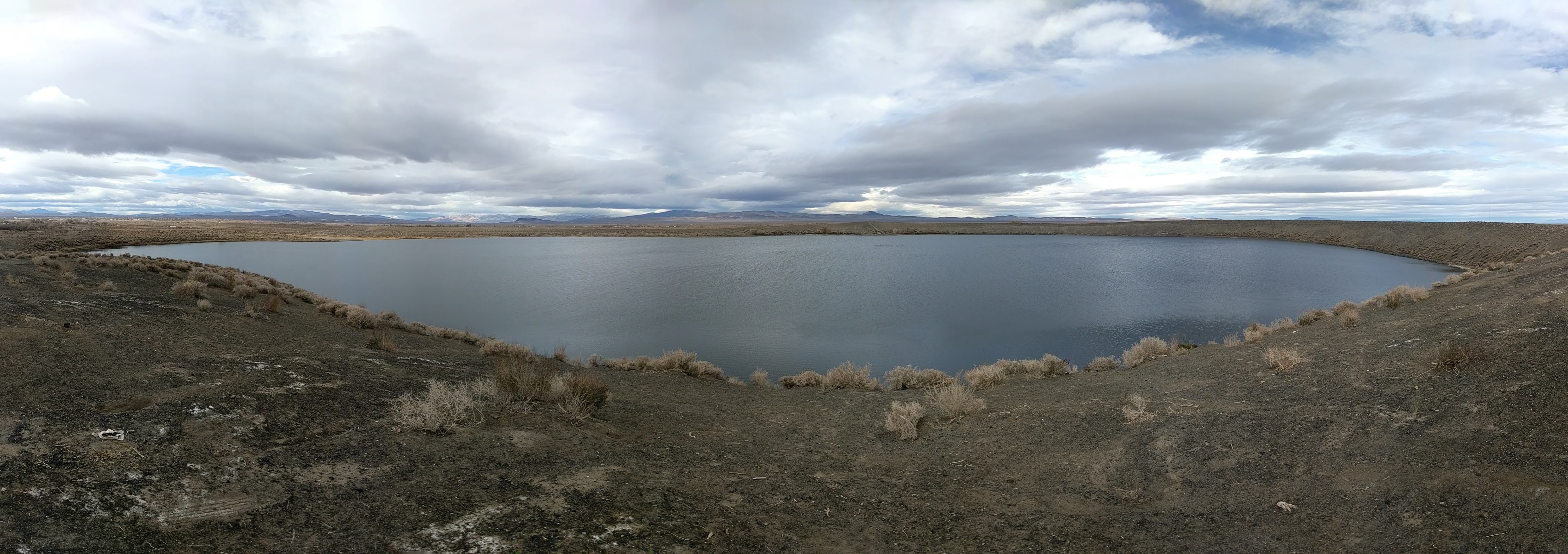 panorama of Big Soda Lake near Fallon, Nevada taken November 23, 2018